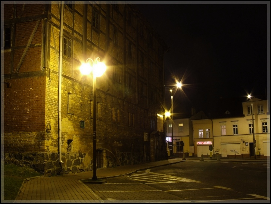 Granary in Kwidzyn at night